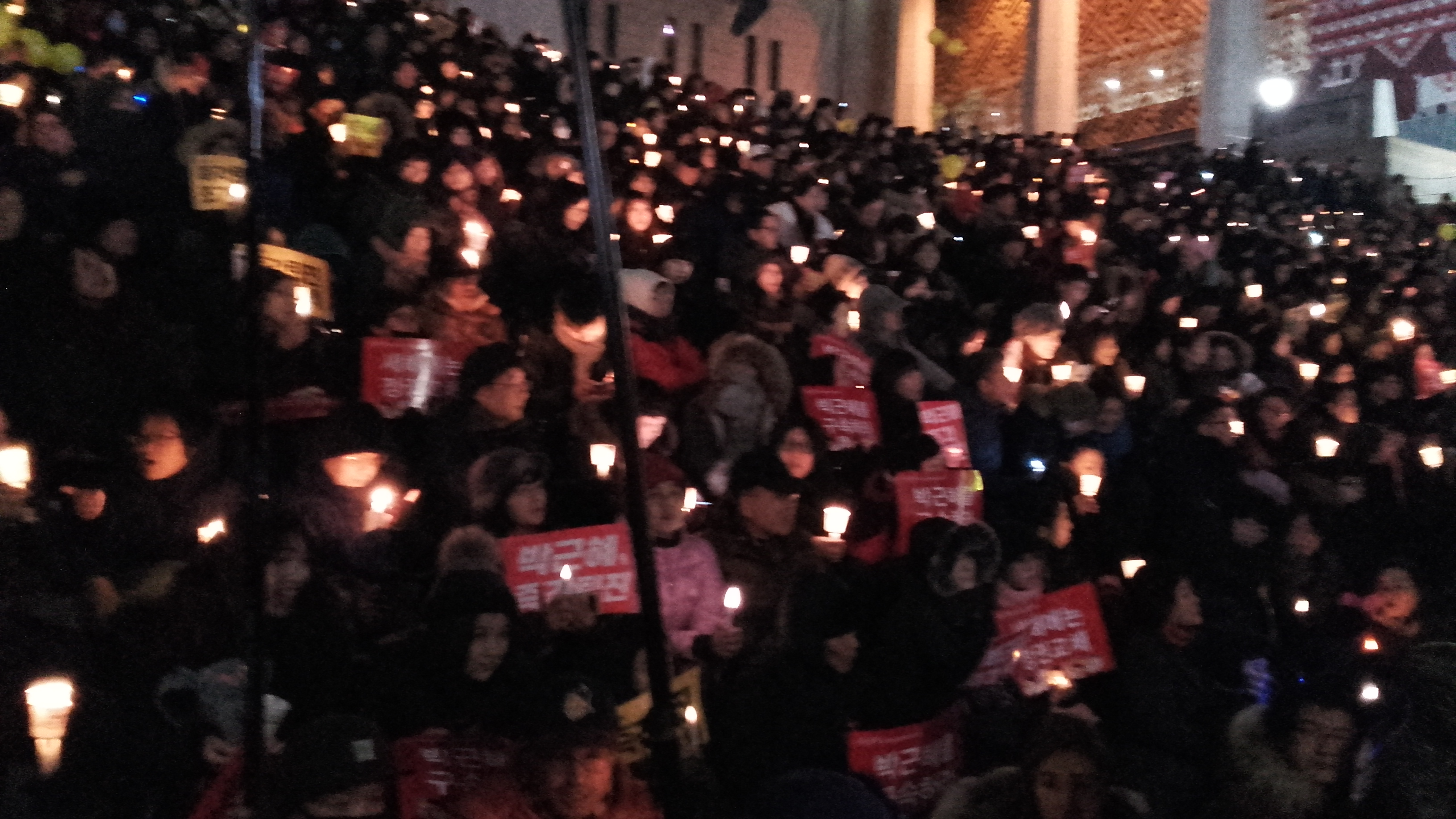 Candlelight Protest around Sejong Center at Gwanghwamun 한국어 (조선): 광화문 촛불 시위